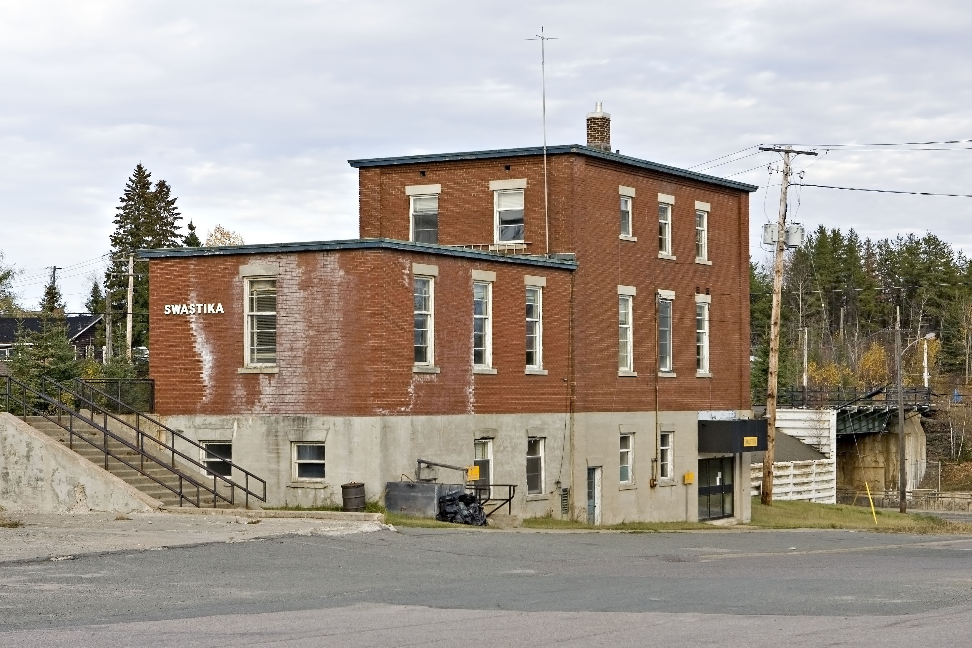 Swastika train station view from street showing road underpass.